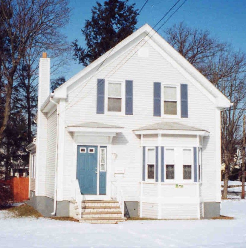 Gablefront house with bay window. Popular between 1870 and 1920 throughout the United States.